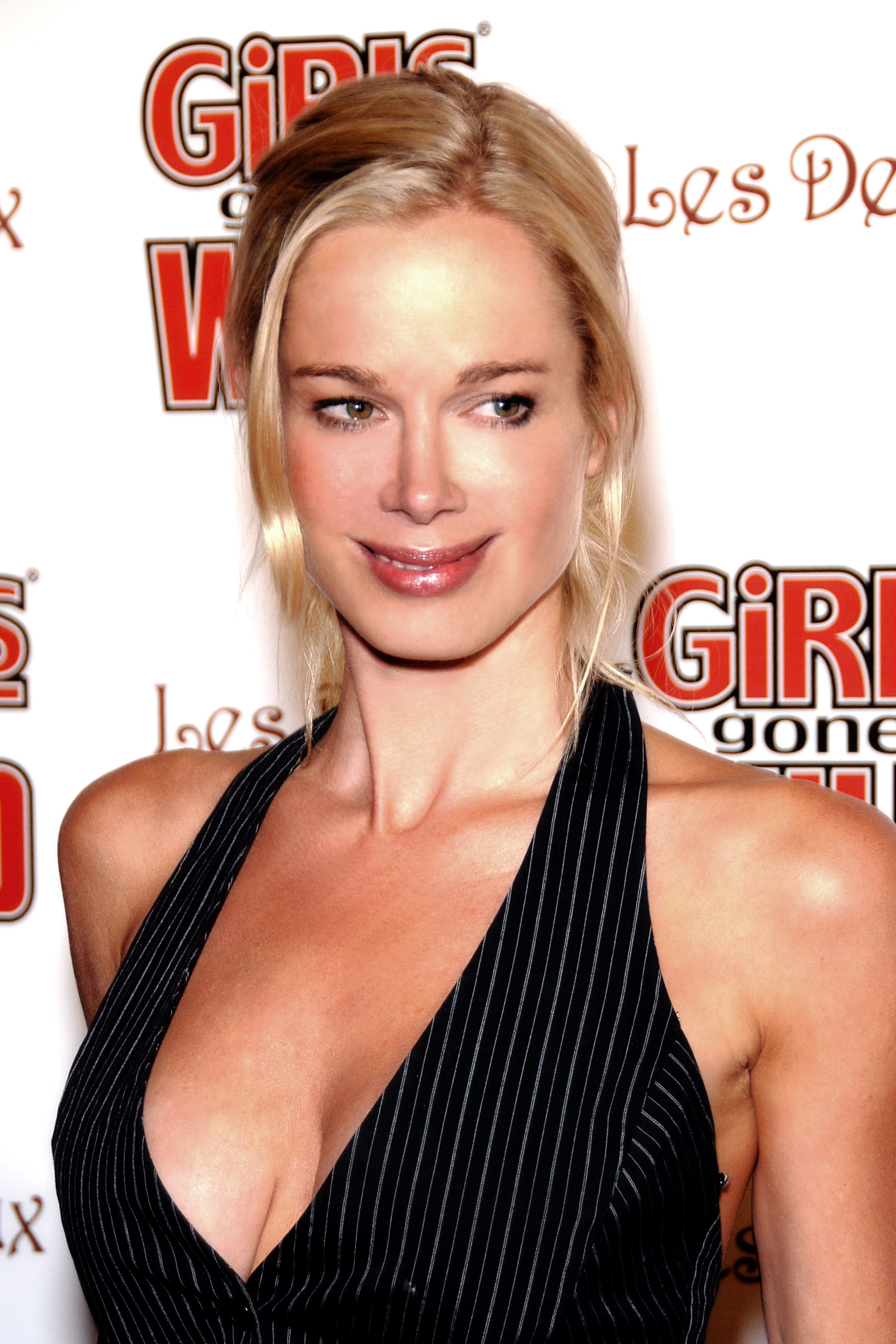 Jennifer Gareis attending the second issue release of "Girls Gone Wild Magazine" Party at Les Deux, Hollywood, June 4, 2008